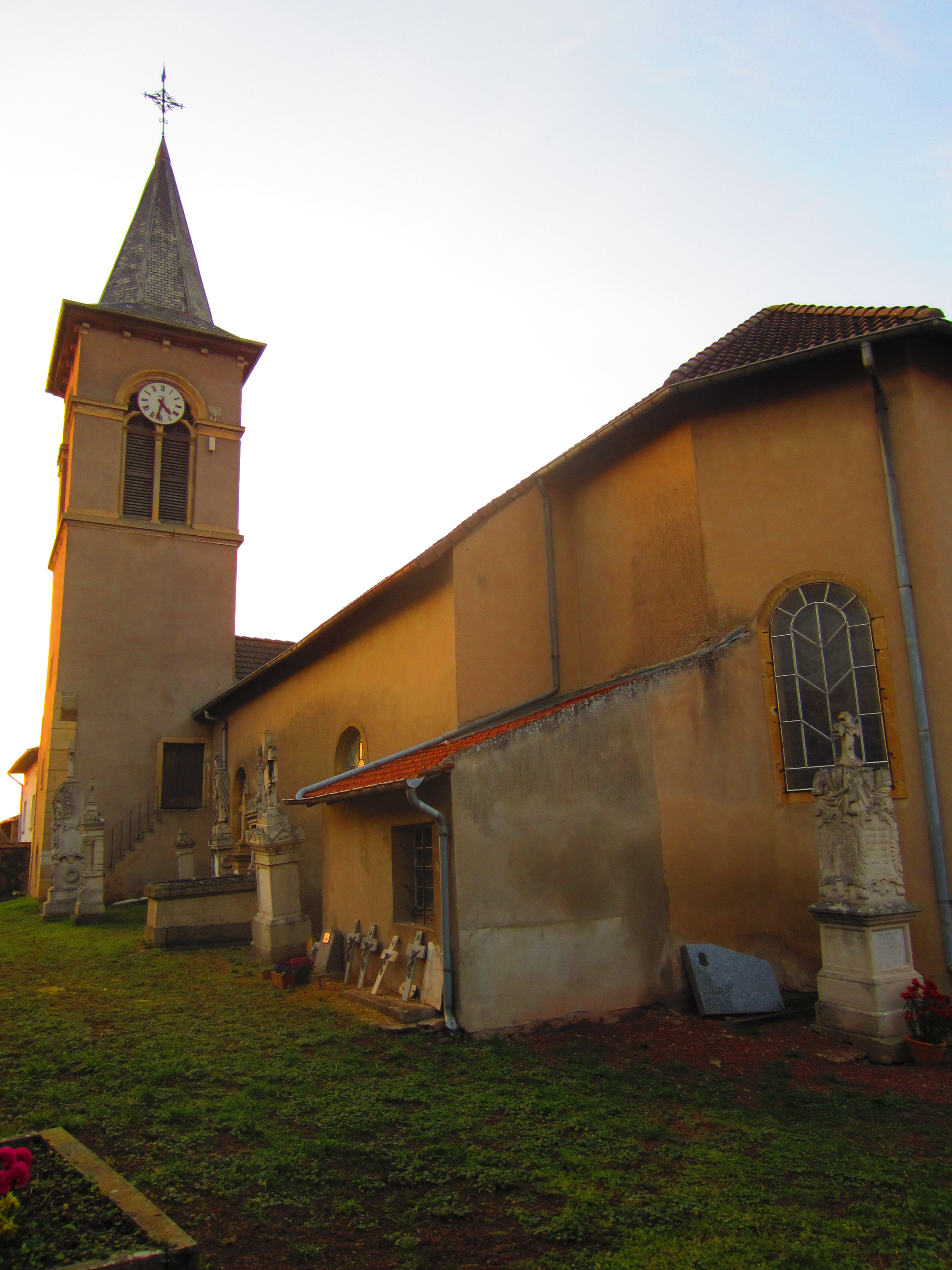 Description eglise Bettainville Date23 November 2011Sourcemon appareil photoAuthorAimelaimePermission(Reusing this file) eglise Bettainville